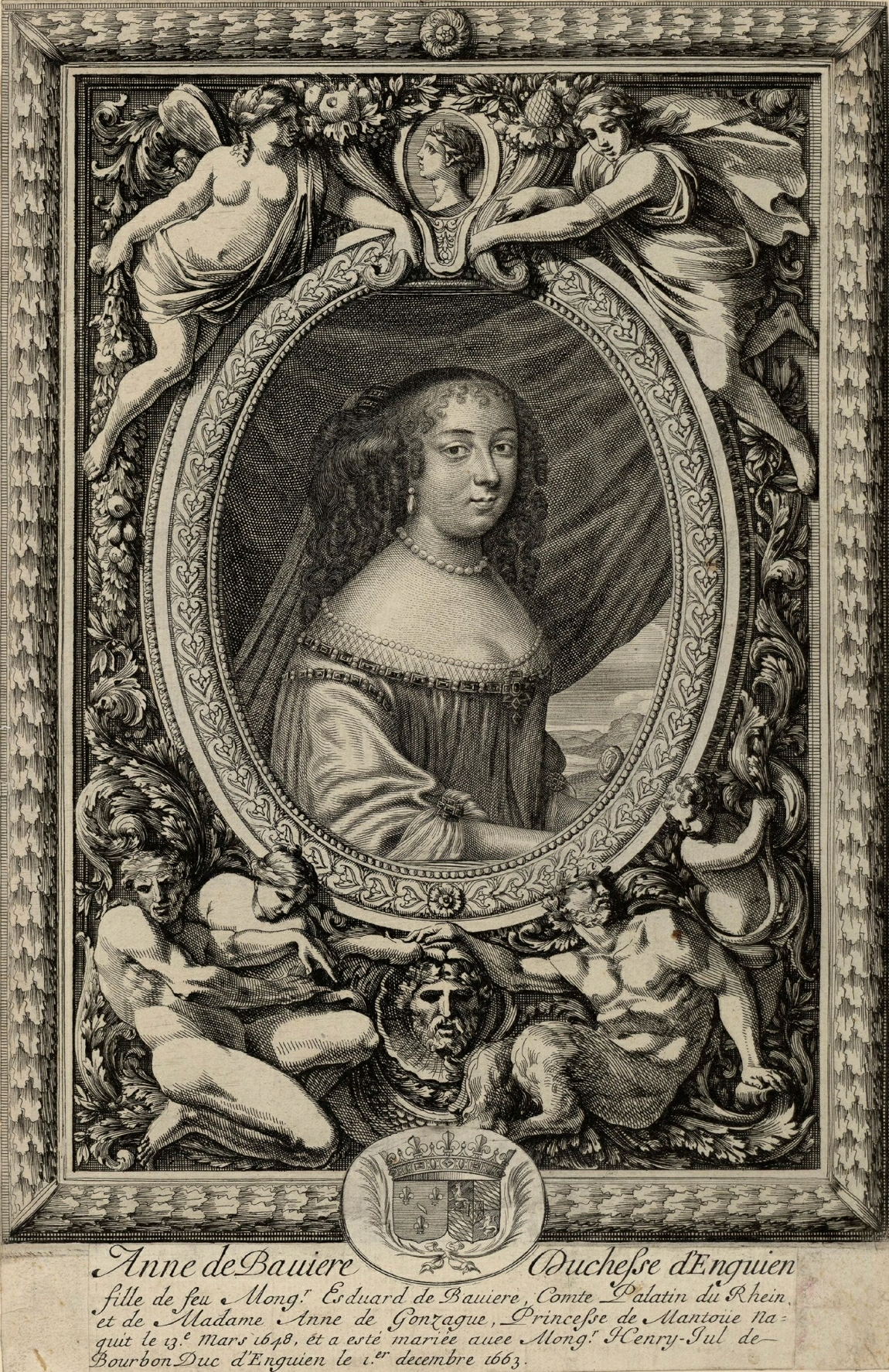 Anne of Bavaria (Anne of the Palatinate), Princess Palatine as Duchess of Enghien following her marriage (1663)